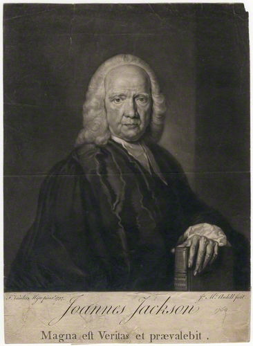 Portrait of John Jackson (1686–1763), English clergyman.